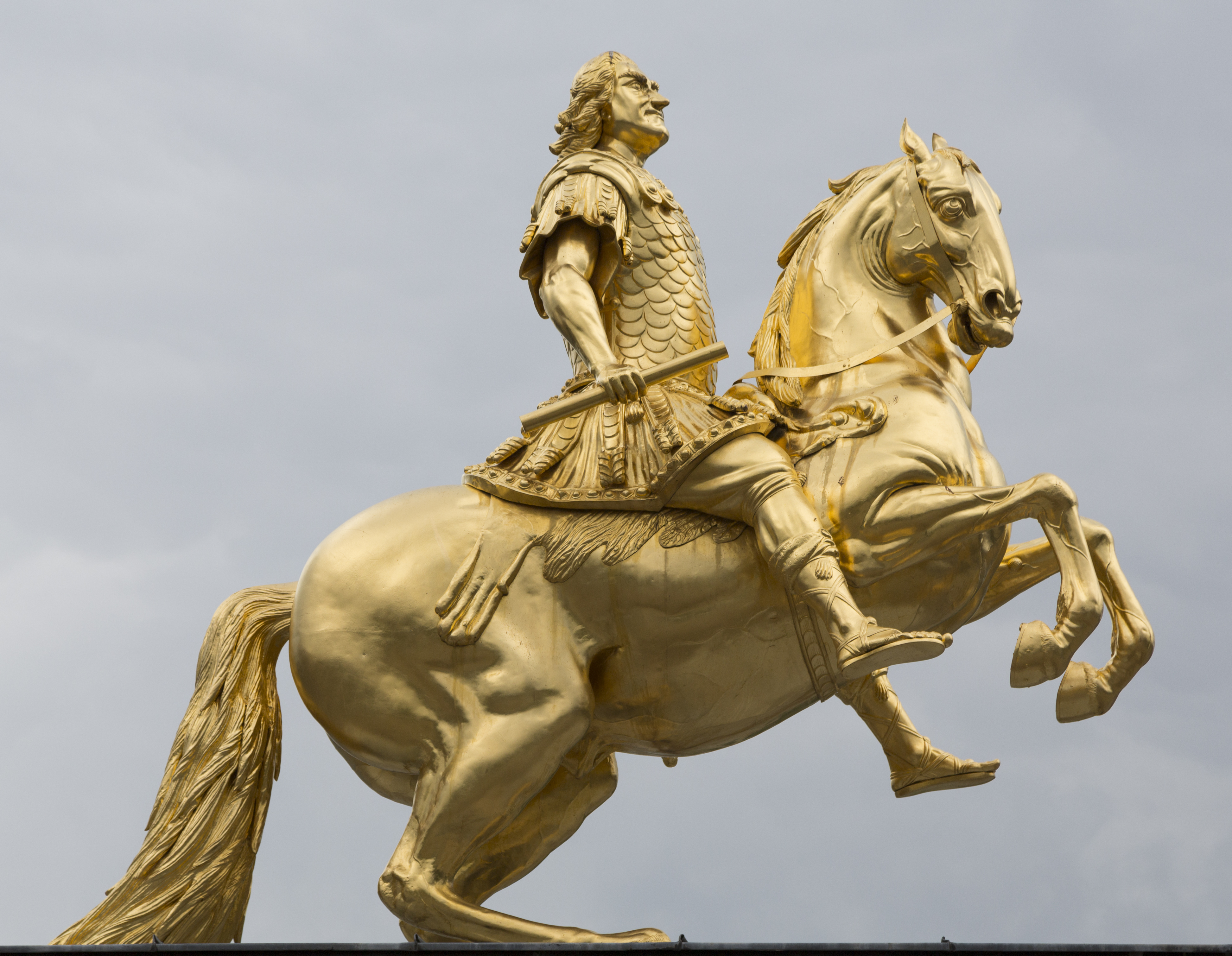 Dresden, Germany: Goldener Reiter, memorial of August II the Strong